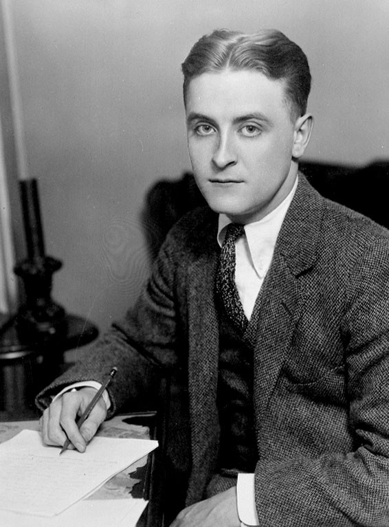 Photograph of F. Scott Fitzgerald c. 1921, appearing "The World's Work" (June 1921 issue)